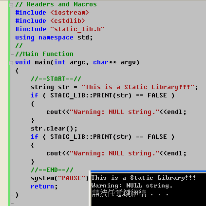 This is a sample of the application Cpp code for static library.